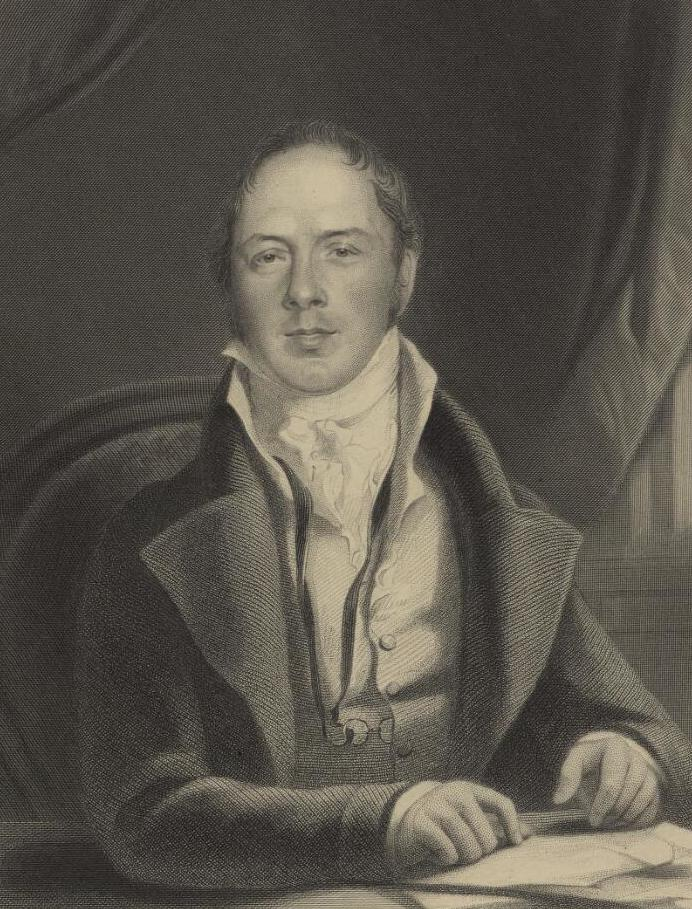 A portrait from the Welsh Portrait Collection at the National Library of Wales. Depicted person: Matthew Gregory Lewis – English novelist and dramatist